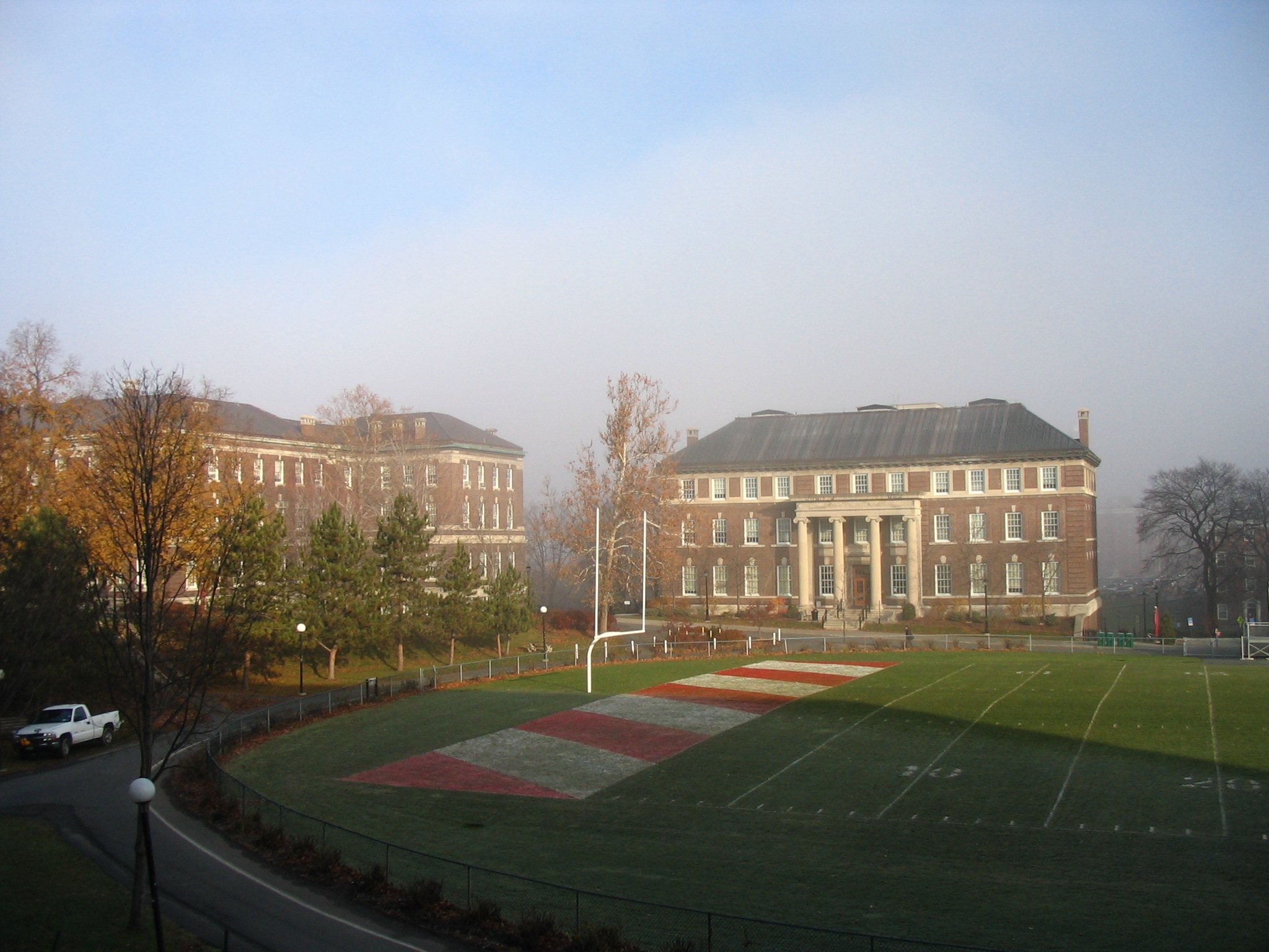 Image taken by myself with a Canon PowerShot A75 '86 Field in Foreground, Troy Building in center of background, Russell Sage Lab left of center of background